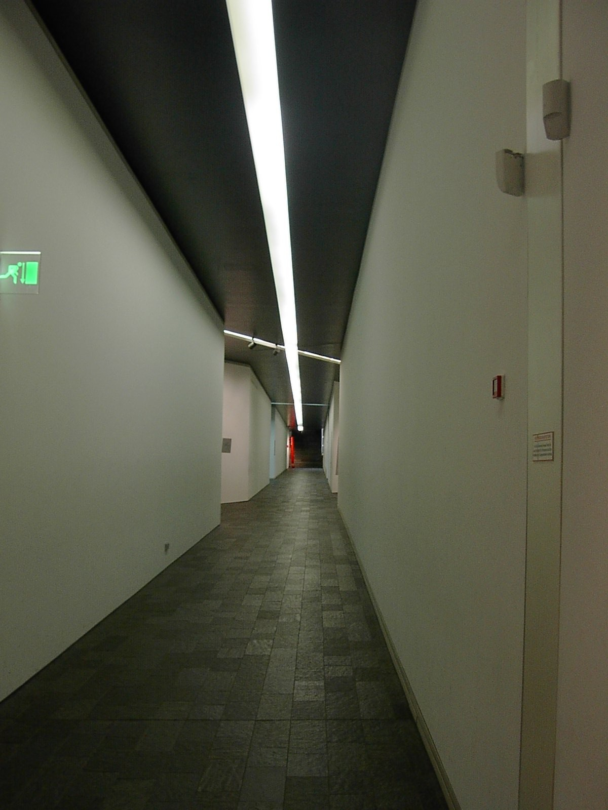 An interior view of the distinctive architecture of the Museum, Jüdisches Museum Berlin